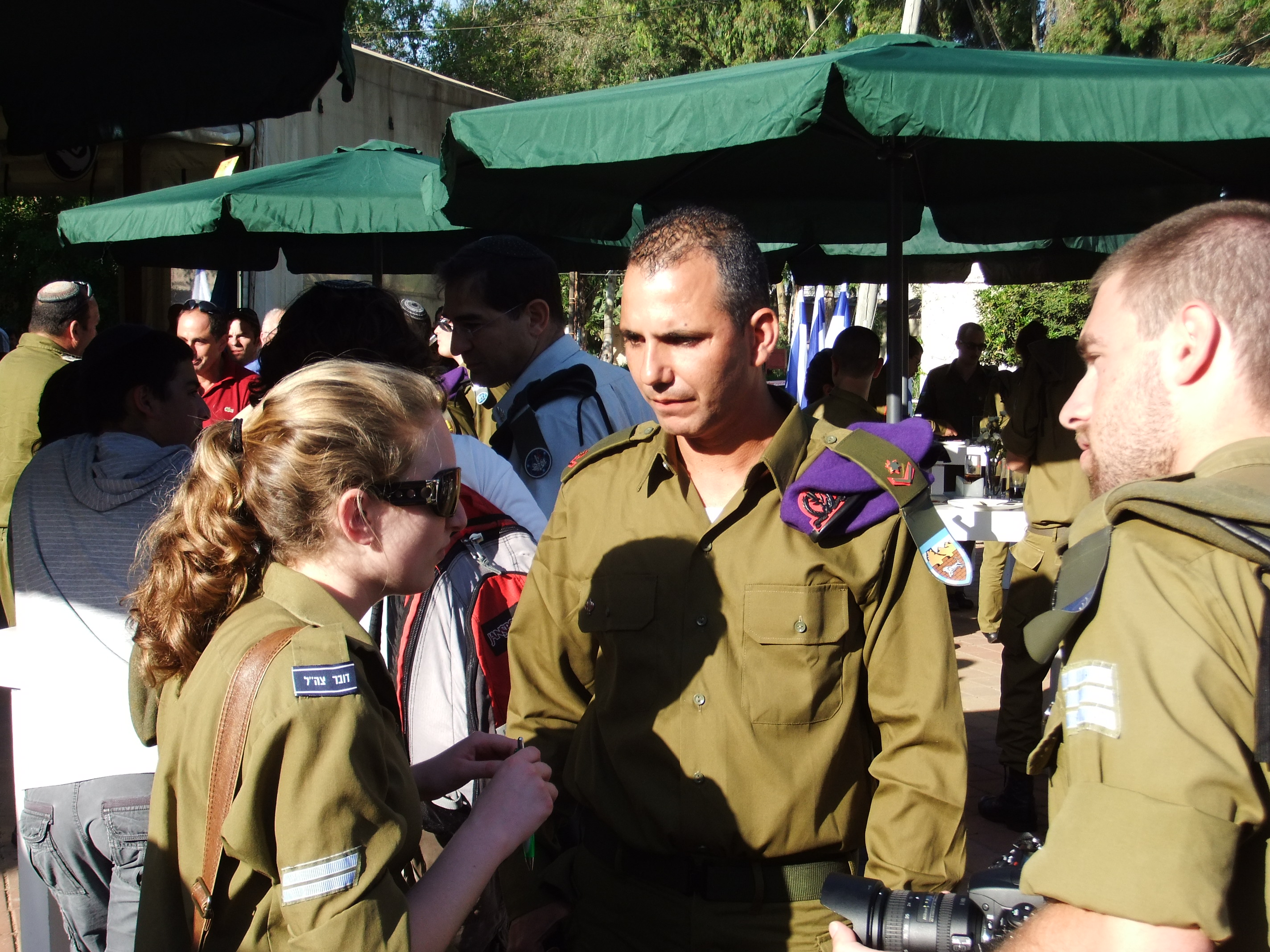 Reporter and photographer from IDF spokesperson unit interviewing a reserve soldier reserving head of staff award